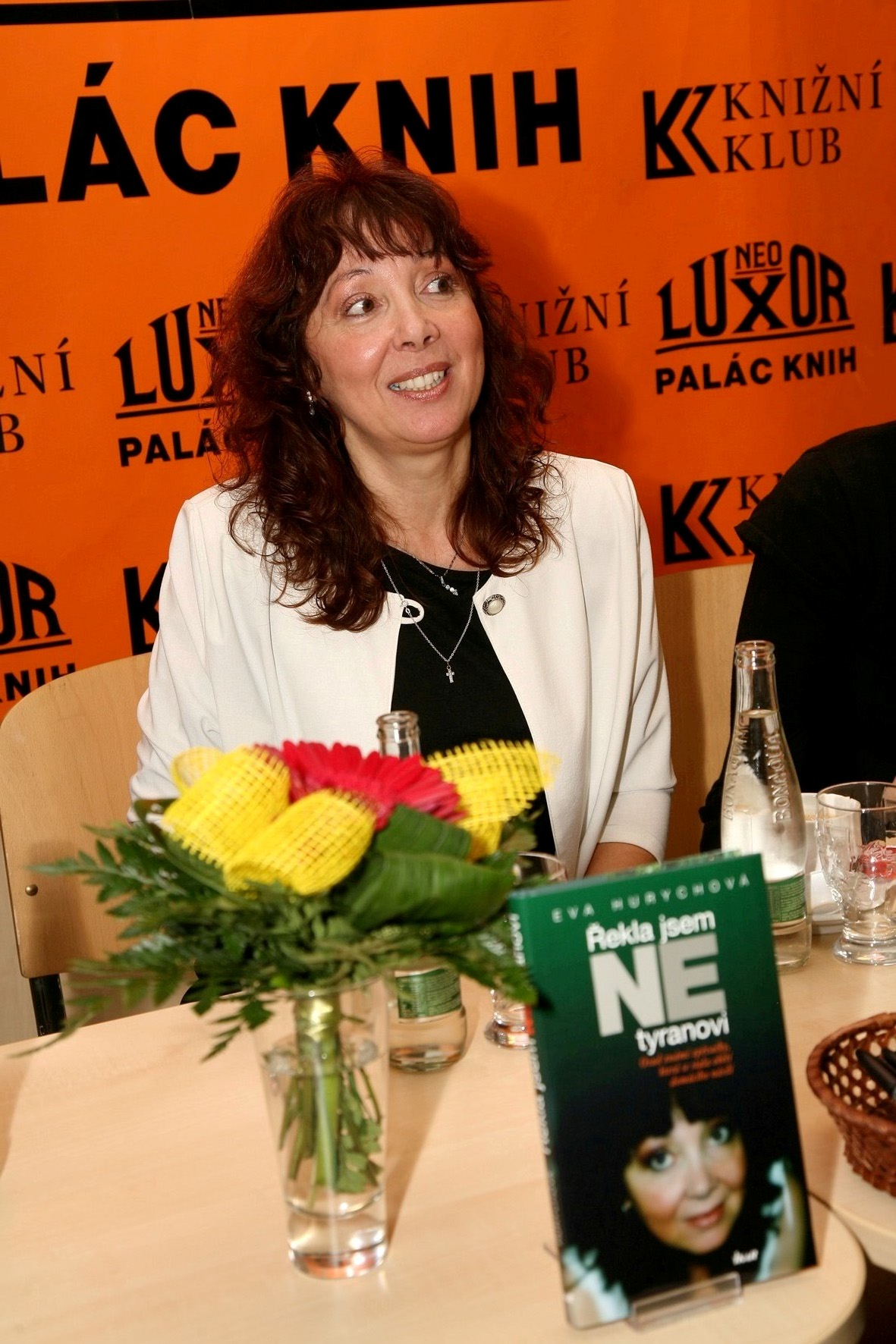 Eva Hurychová – Czech singer, composer and lyricist